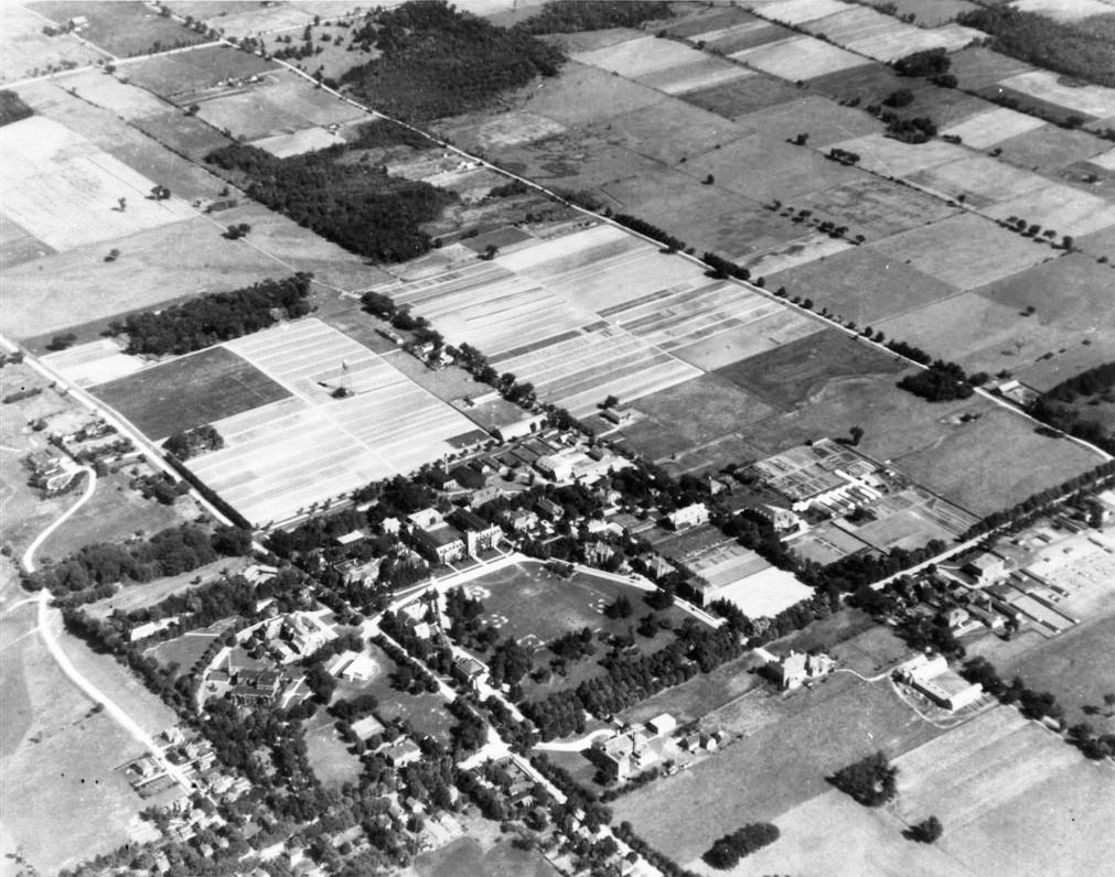 This aerial photograph shows the campus of the University of Guelph as it was when the Royal Canadian Air Force used it for No. 4 Wireless School. The date of the photograph is unknown but it probably would be summer of 1942, 1943, or 1944. Johnston Hall is near the centre of the frame. The H-hut barracks at the Cutten Fields clubhouse (mid-left), the Armaments Building on Macdonald Street, the L-shaped Motor Transport Garage, and the Parade Square are clearly visible.The gravel road from the Cutten Fields clubhouse to University Avenue East was built by the RCAF to provide access to the club. College Avenue was blocked by the security fence erected by the RCAF.